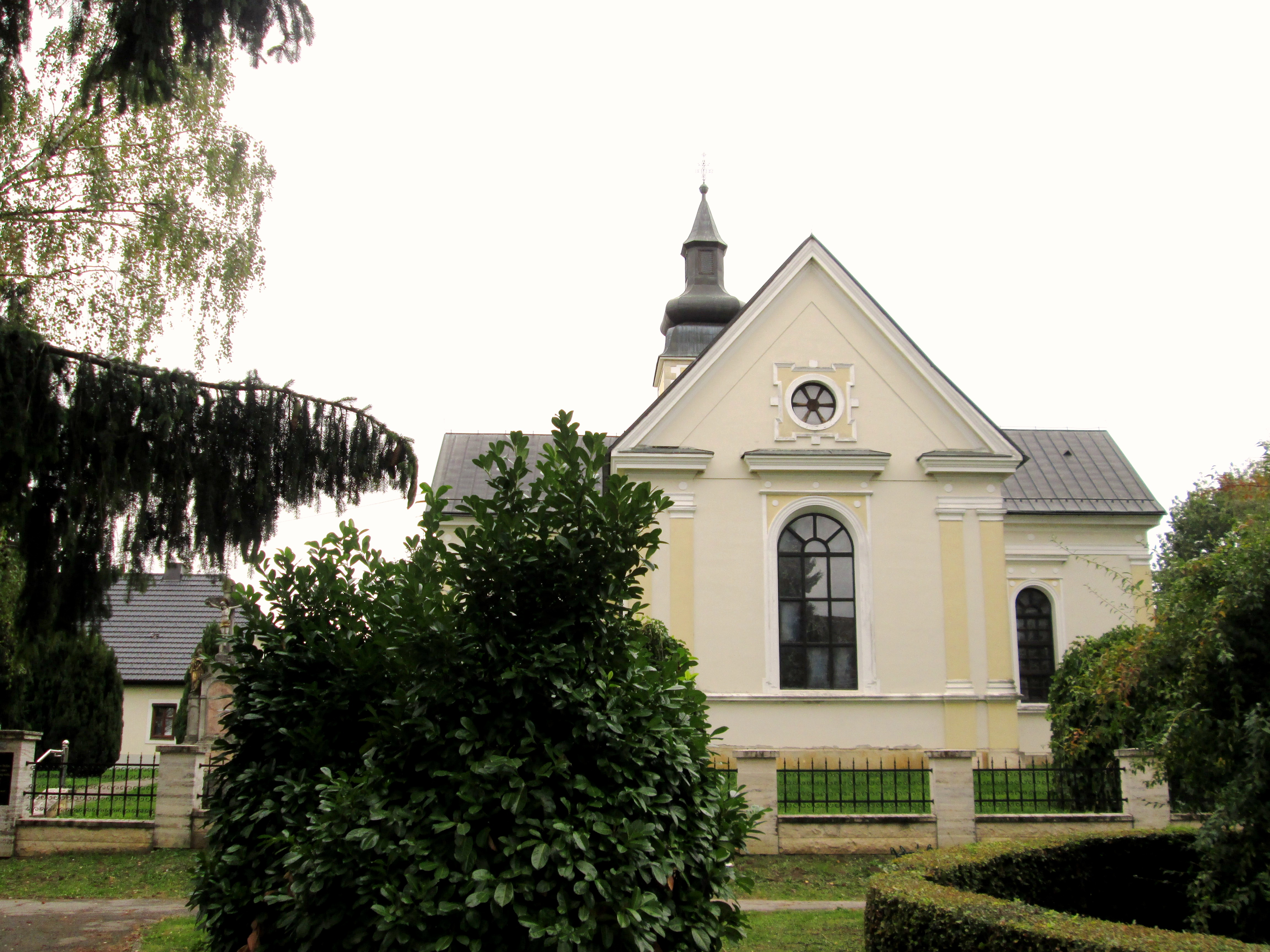 St. John Baptist Church in Sveti Ivan Zabno, Croatia.